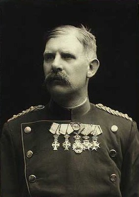 Danish Lieutenant Colonel Hans Lasenius Herman Tuxen (1856-1910), chief of Hærens Tøjhus